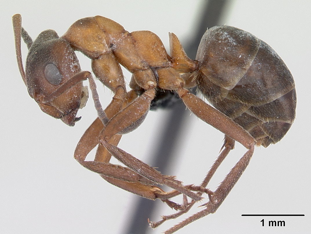 Profile view of ant Formica exsecta specimen casent0173161.